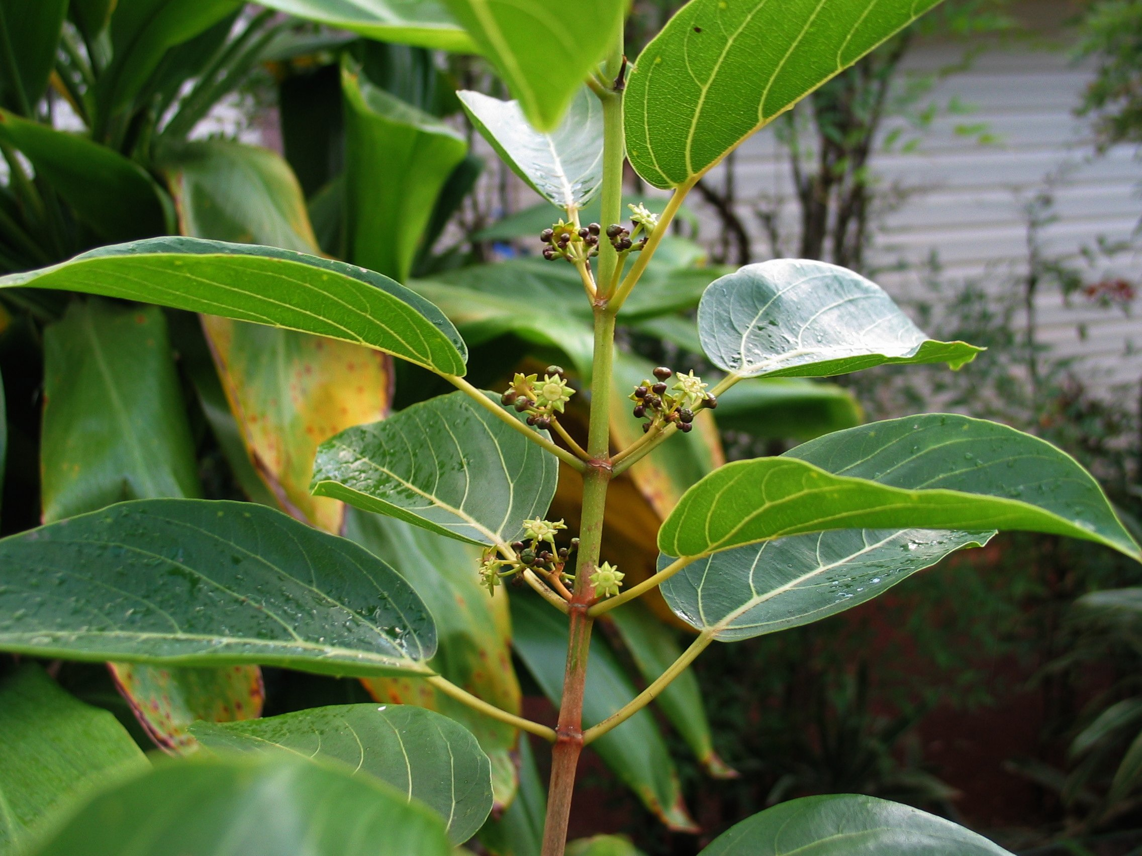 Kauila, Kauwila Rhamaceae Endemic to the Hawaiian Islands Endangered Oʻahu (Cultivated; Oʻahu form)